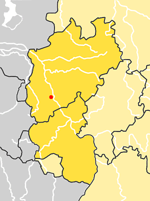 Map, Location of Cologne (Germany)